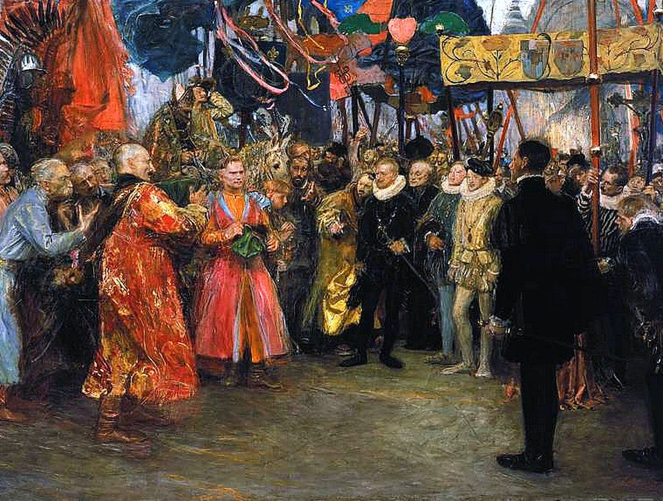 Polish envoys to King Henry III Valois, two worlds